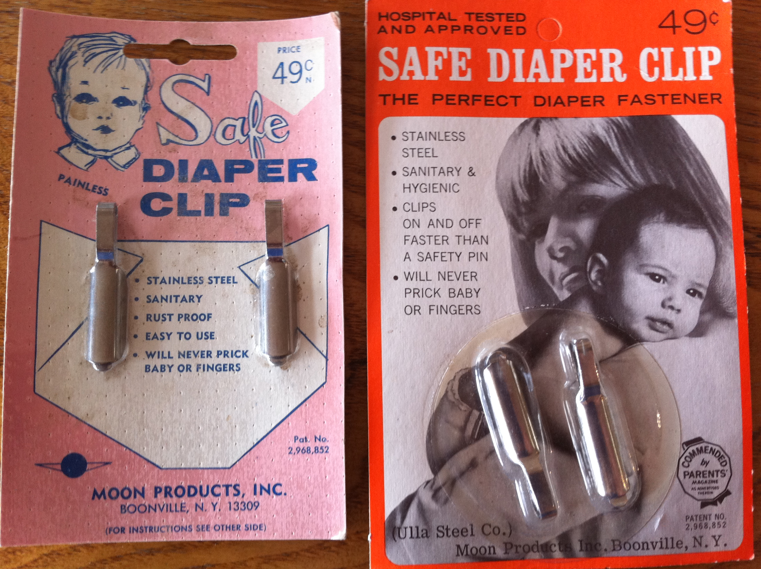 Photograph of the original Safe Diaper Clip, patented 1/24/67. The photograph was taken by Clare Campbell, granddaughter of the patent-holder (Edward R. Moonan, deceased).